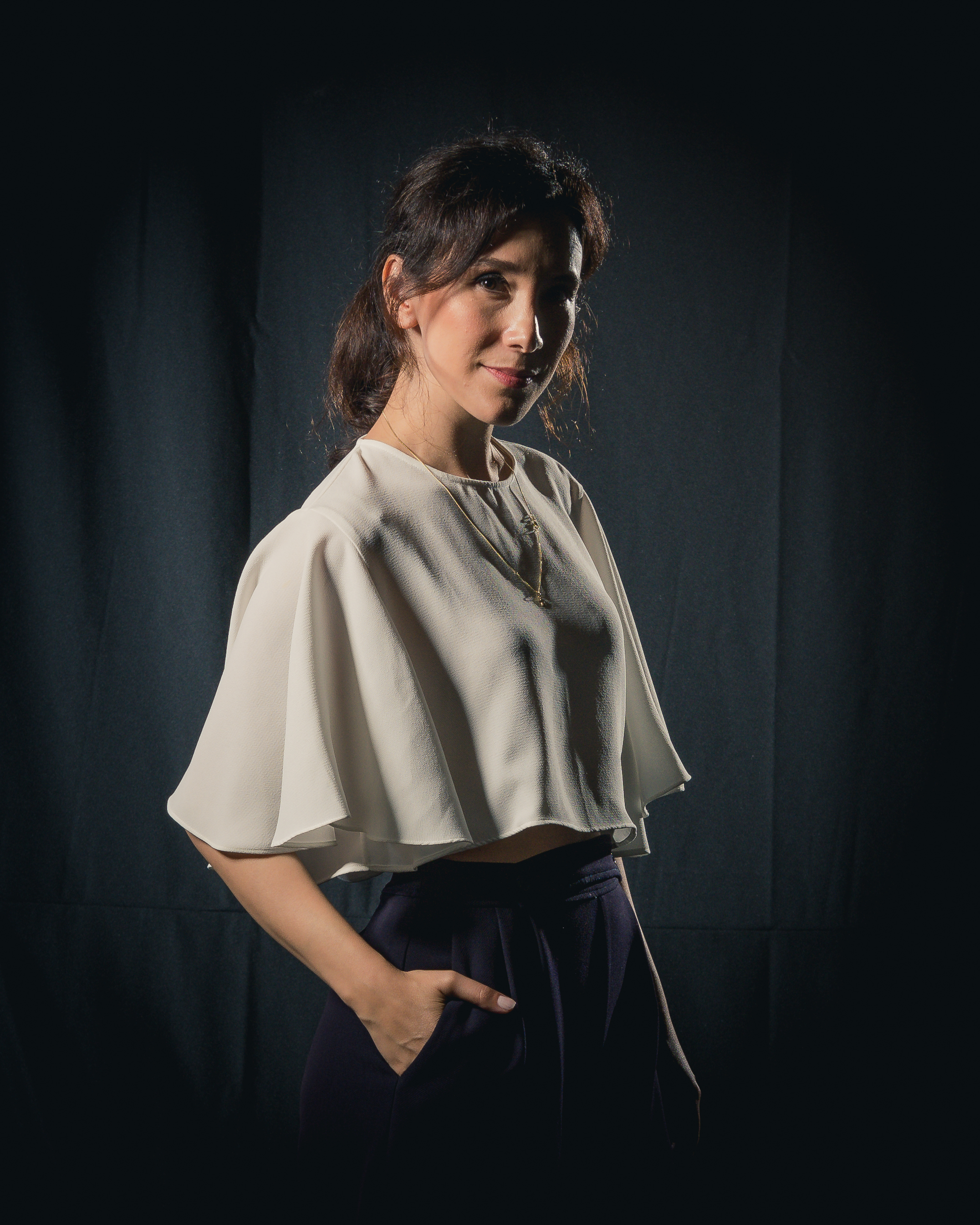 Portrait photoshoot at Worldcon 75, Helsinki, before the Hugo Awards: Sibel Kekilli